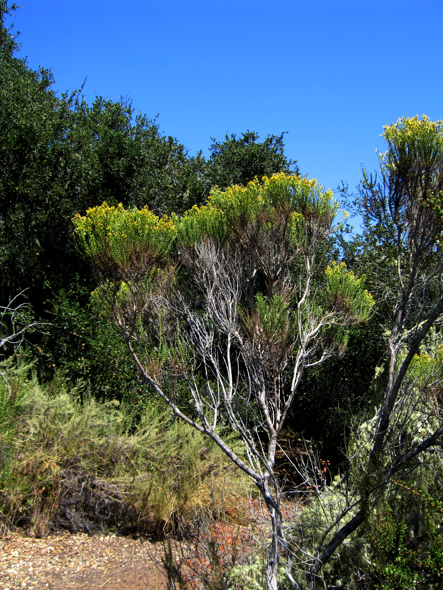 Baccharis pilularis (coyote brush) — flowering in coastal chaparral and woodlands habitat. Located in Los Osos Oaks State Natural Reserve, east/inland of Morro Bay, in San Luis Obispo County, California, USA.